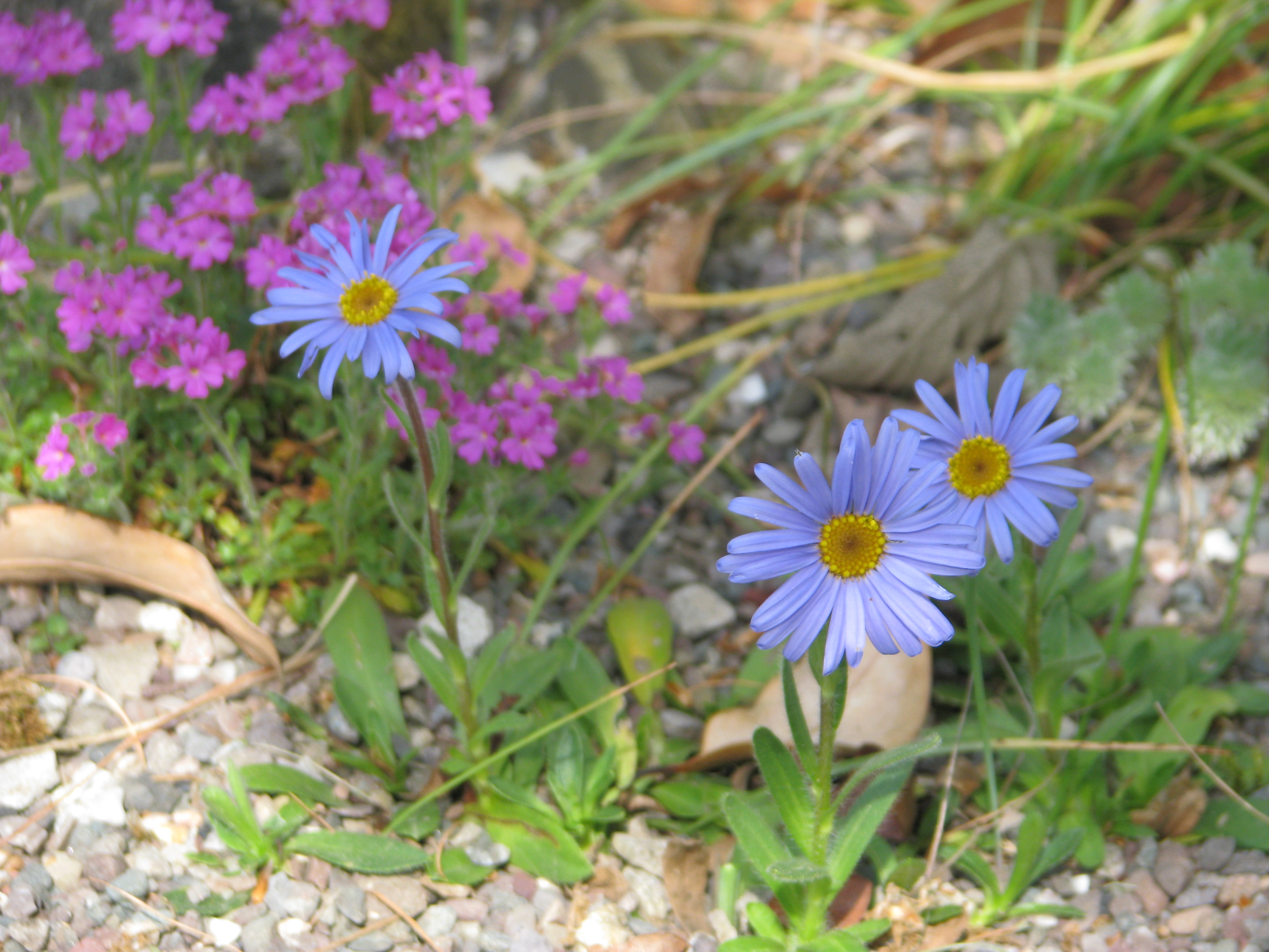 A better picture with all the flowers open.